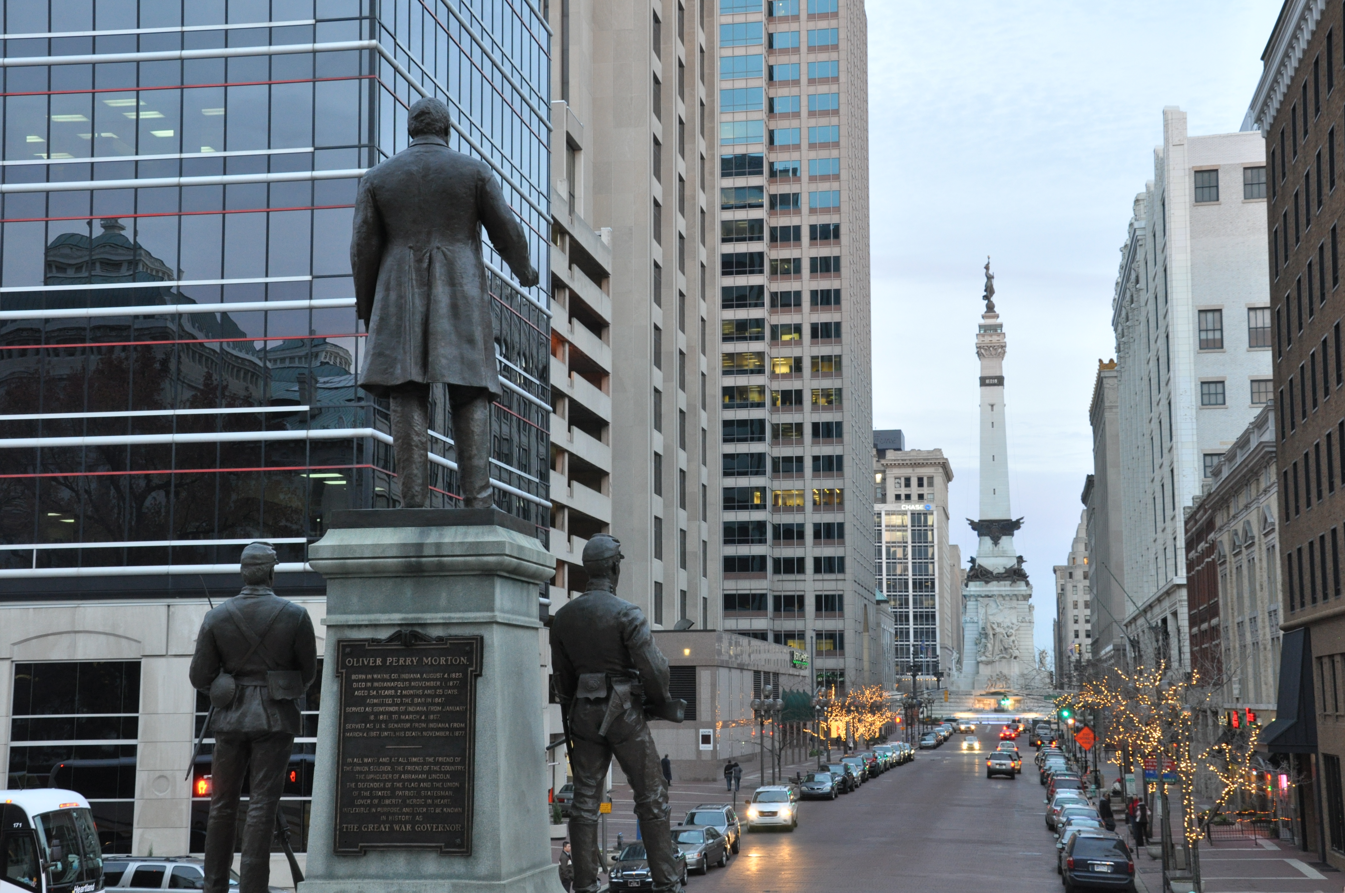 Morton Looks at West Market Street